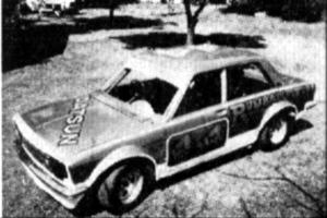 Barry Burns - Northern Territory, Australia Speedway Champion Circa 1970 - Still holds records to this day